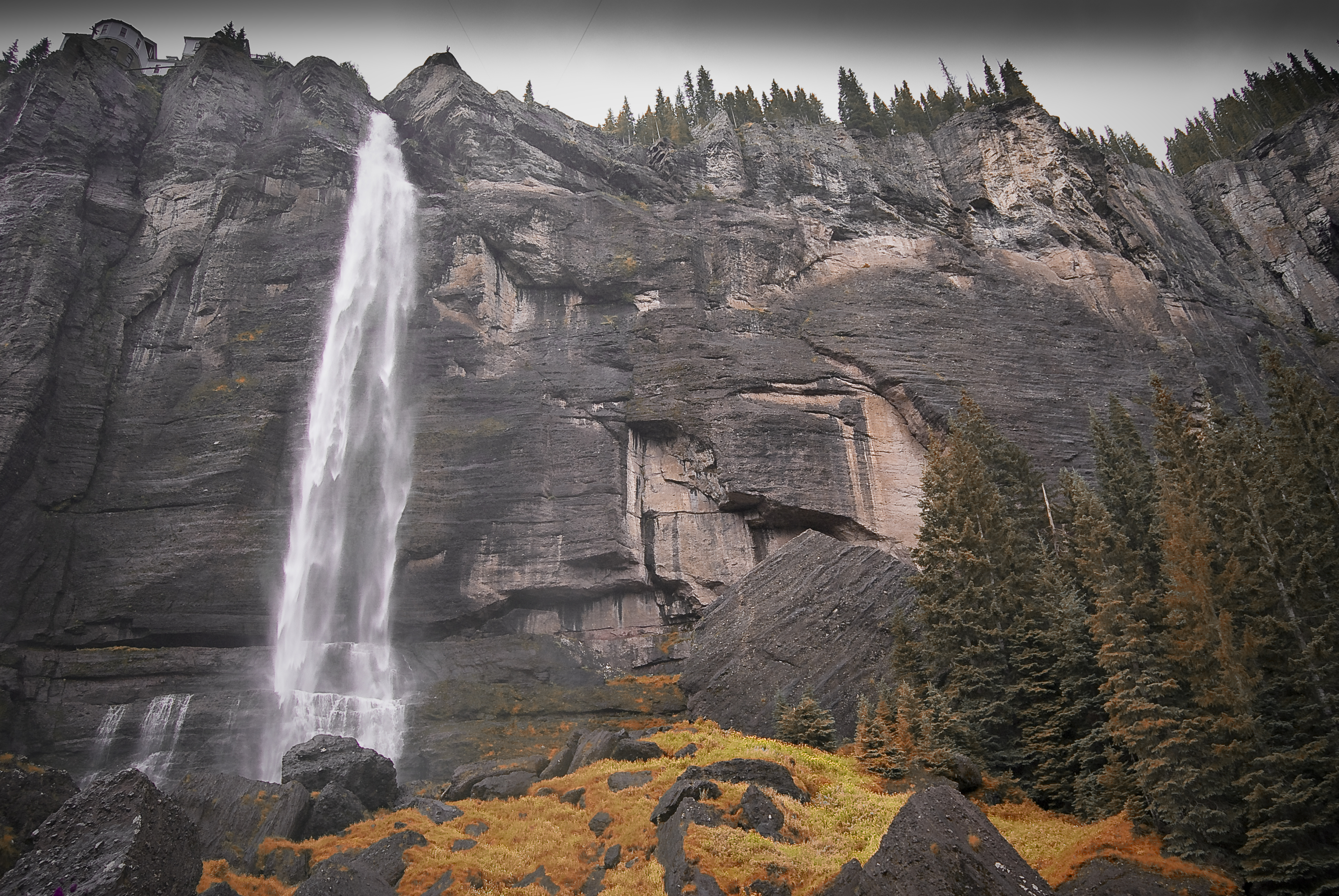 Waterfalls in Tomboy, Colorado